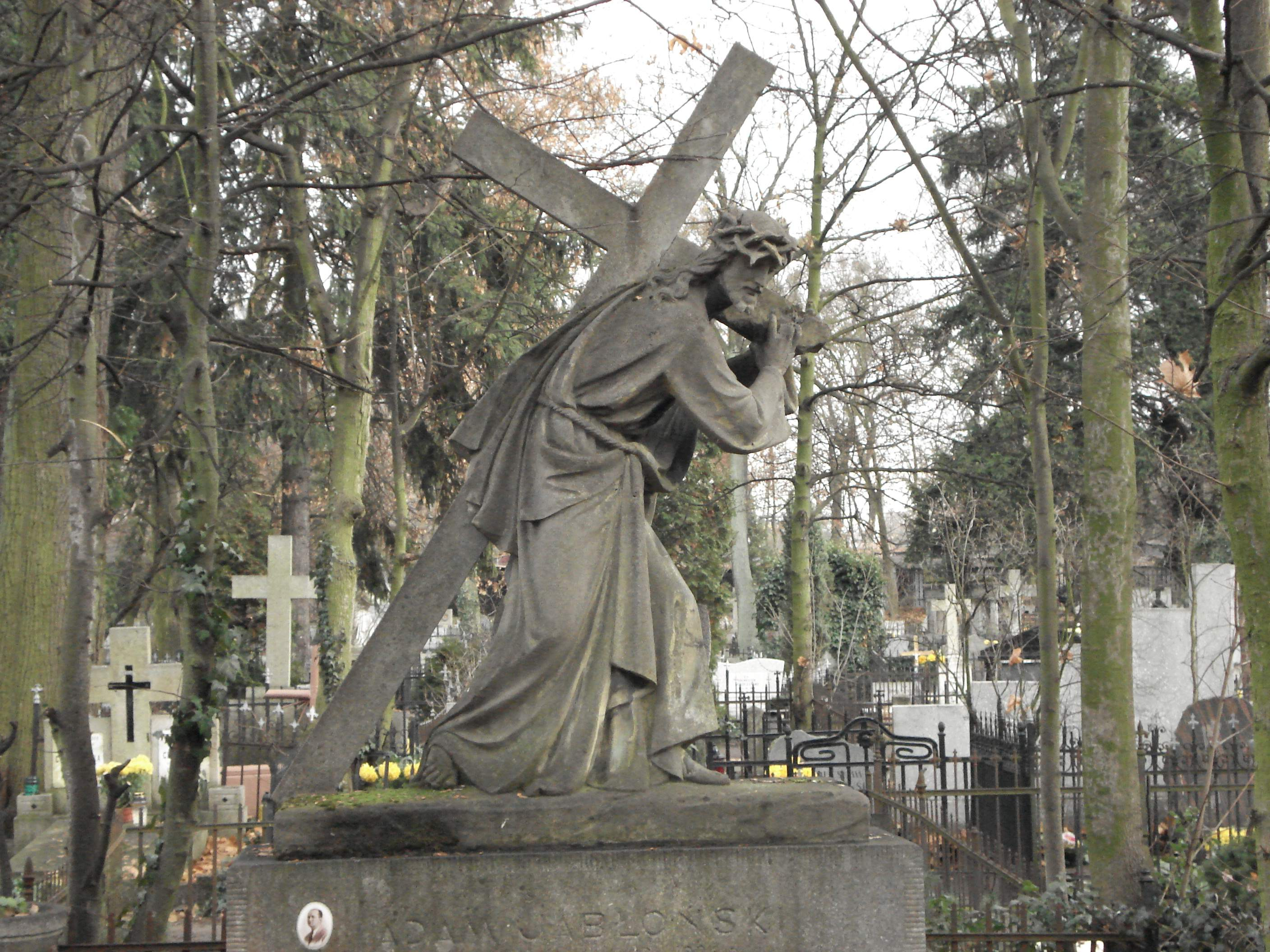 Gravestone of Adam Jabłoński (1888-1936) at the St. George Cemetery in Toruń